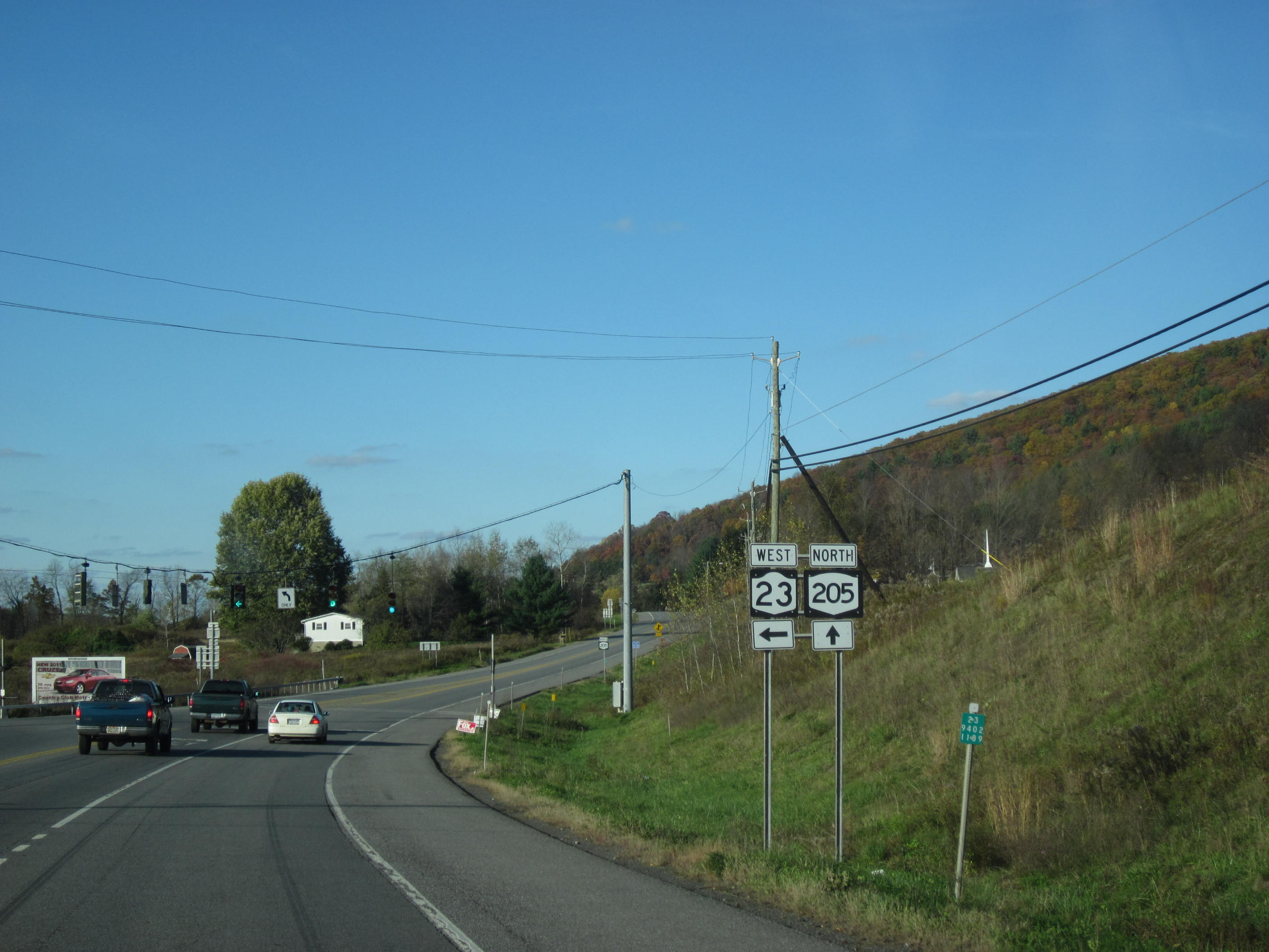 North end of New York State Route 205 (NY 205)/ NY 23 overlap